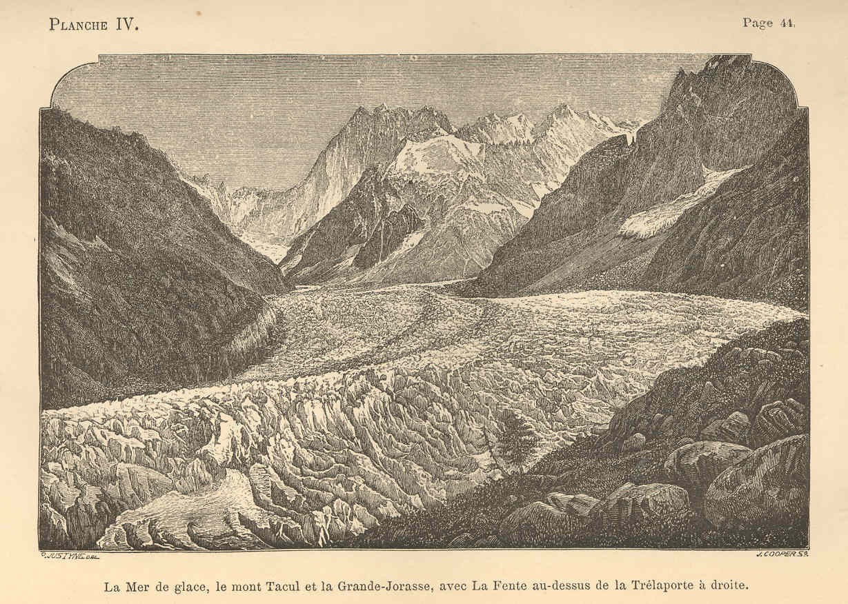 Subject: Mer de Glace (Chamonix, France), Glaciers--France, Mont Tacul (France), Grande Jorasse (France) Geographic Subject: France--Mer de Glace Tag: Polar